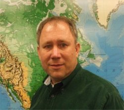 Photo of Jim Pharr